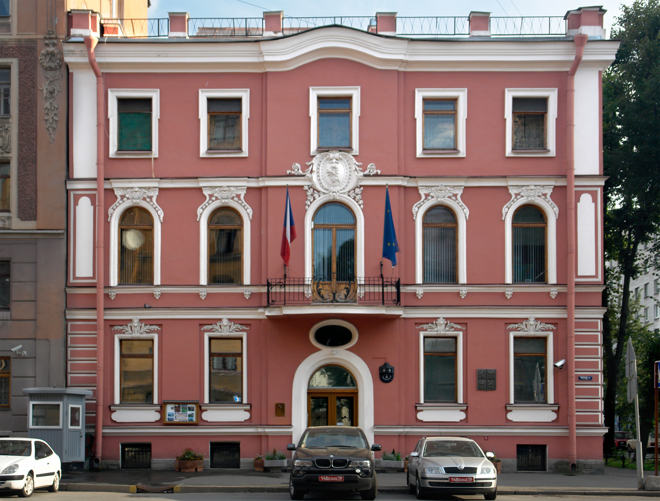 Tverskaja street, Consulate of Czechia in Sankt Peterburg, Russia